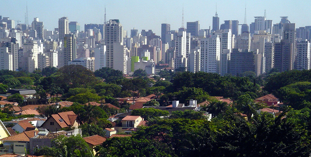 Photo by Caio do Valle